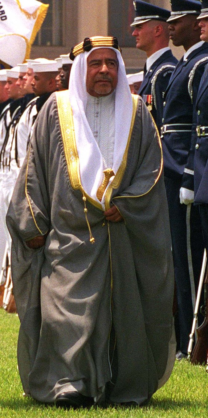 Isa bin Salman Al Khalifa, Emir of Bahrain, during a visit to the Pentagon during a visit to the Pentagon on June 2, 1998.